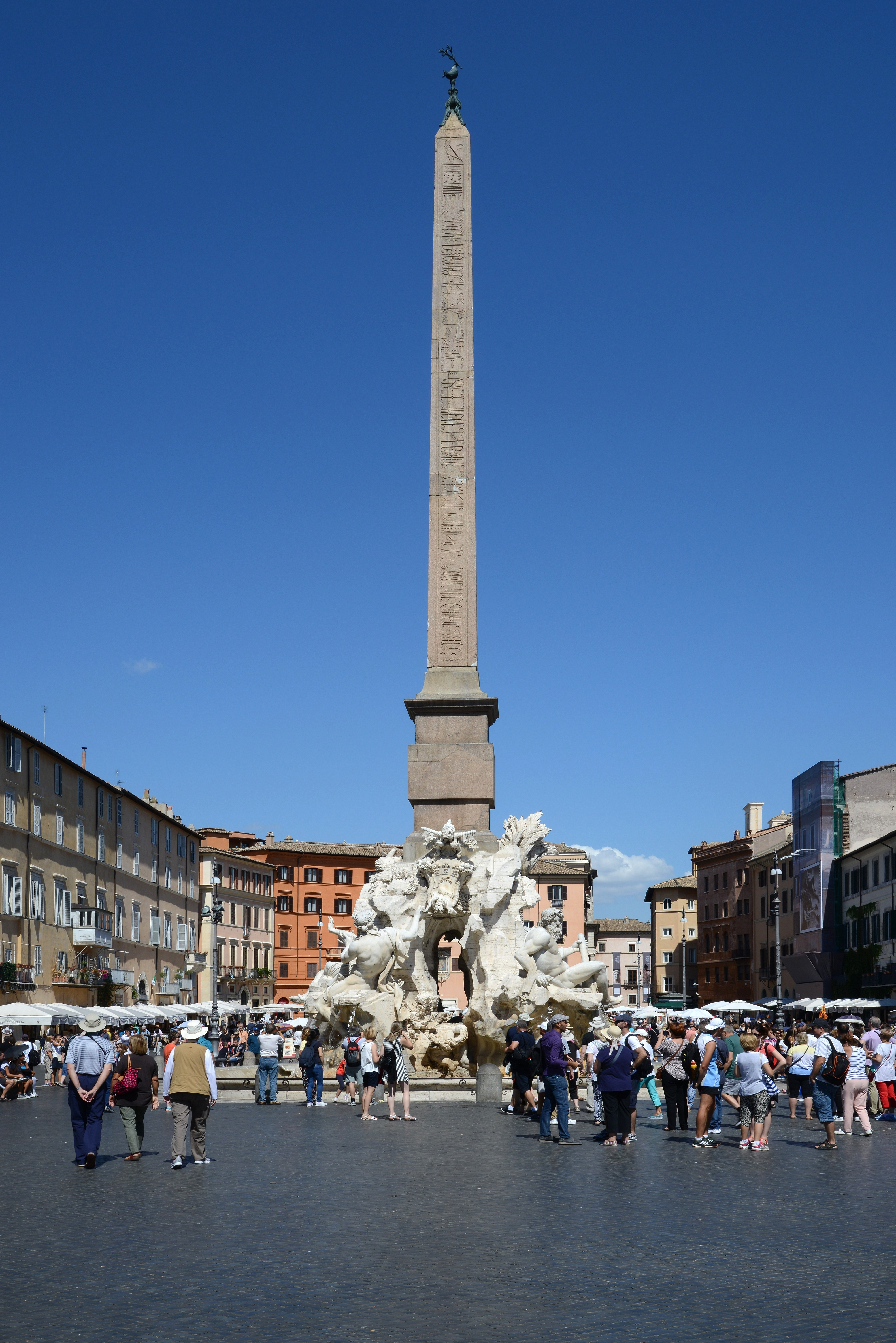 Fountain of the four rivers (Fontana dei Quattro Fiumi), Piazza Navona, Rome